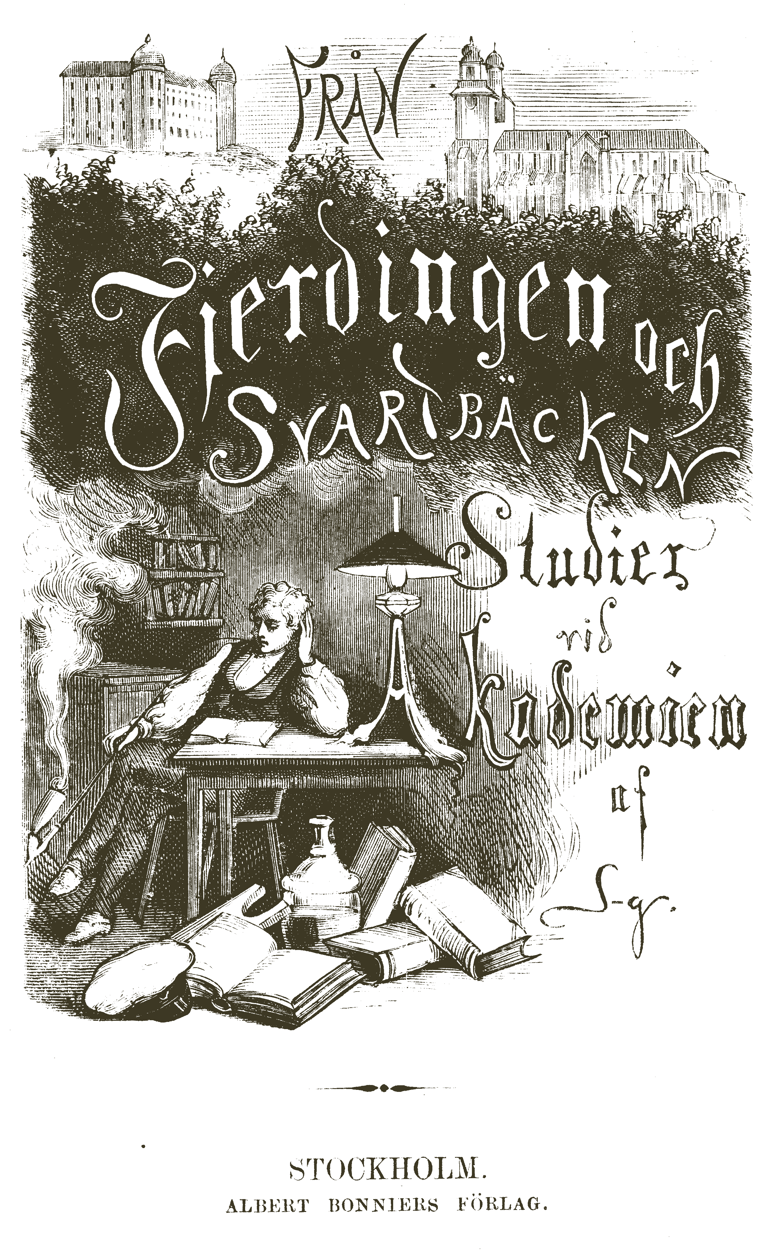 Title page from August Strindberg's book Från Fjerdingen och Svartbäcken, with motives from Uppsala.